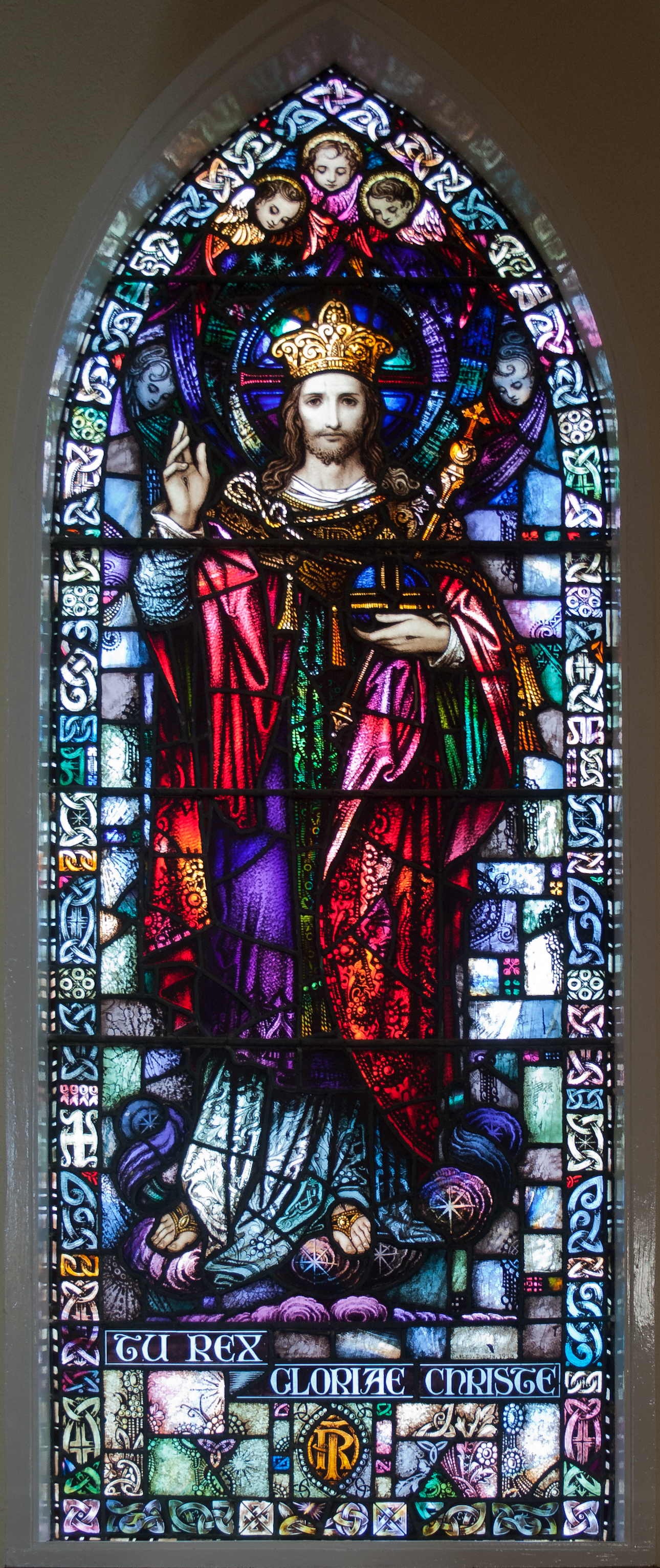 Stained glass window created by William Earley (1872–1956), Dublin, in 1933, titled TU REX GLORIAE CHRISTE. William Earley (1872–1956) DescriptionIrish stained-glass artistDate of birth/death 1872 23 September 1956 Work location Dublin Authority control : Q45351217 creator QS:P170,Q45351217